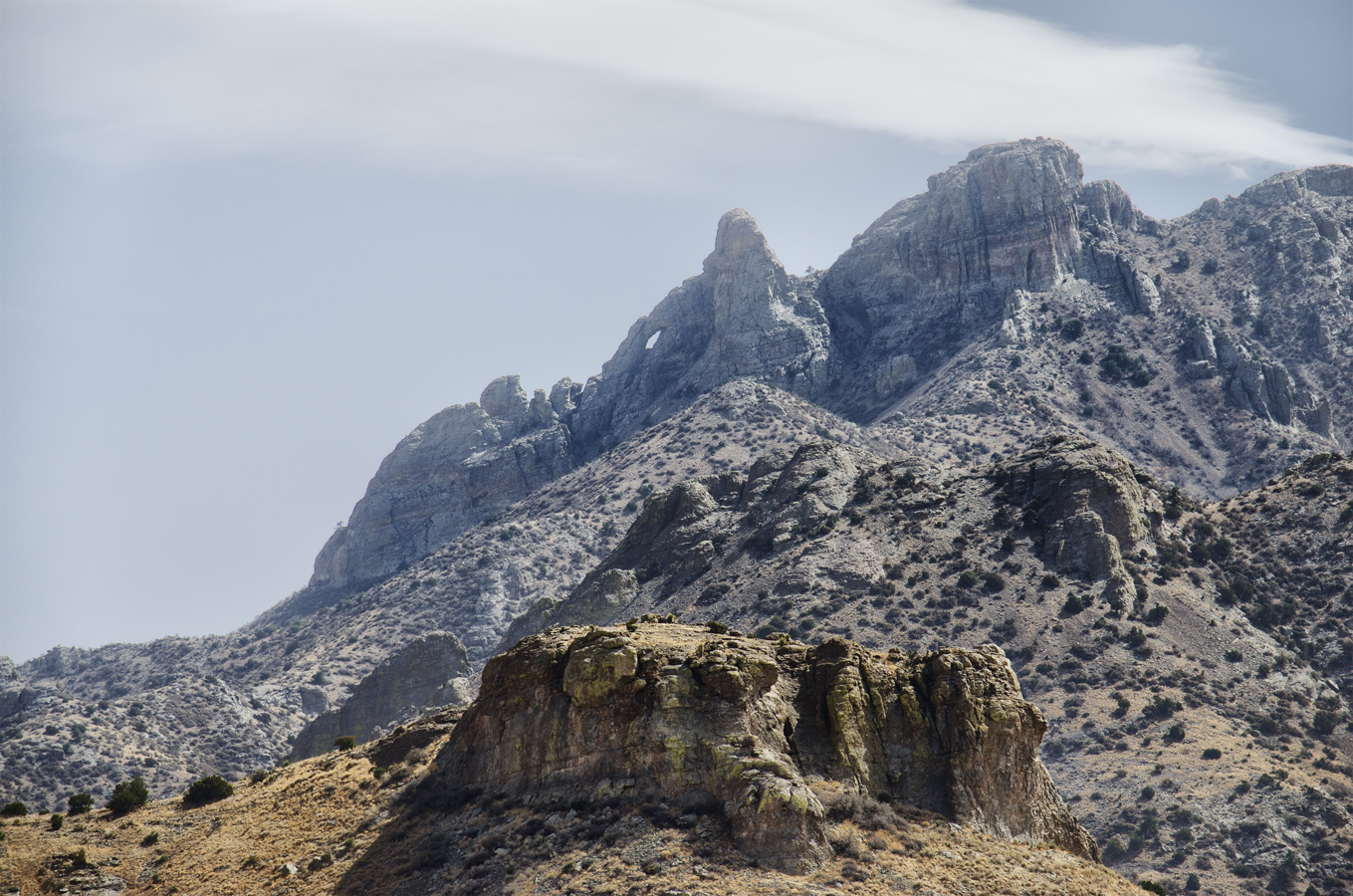 Needles Eye, Florida Mtn. NM This arch is east of of Florida Peak. The Spring Canyon part of Rockhound State Park is on the north side. You can see this arch from the road going to Spring Canyon but you can't see it when you get there. I tried to hike over to it but gave up after a while. It was very windy with lots of dust in the air.